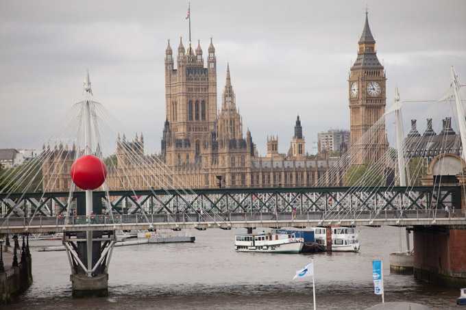 RedBall Project UK Tour